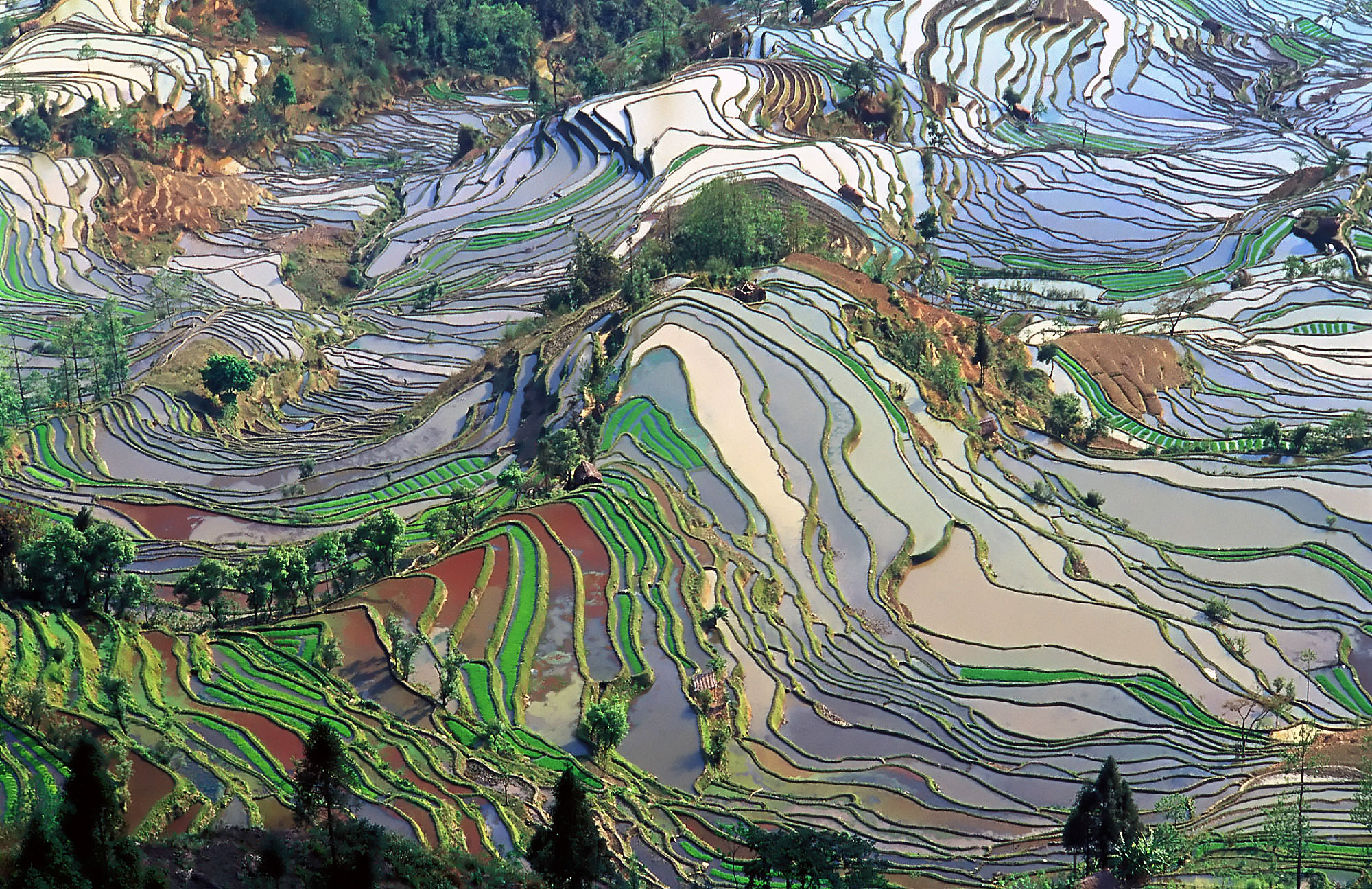 (Honghe Hani Rice Terraces) in Yunnan Province, China.